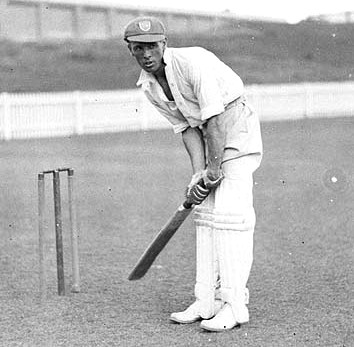 John "Jack" Henry Webb Fingleton OBE (28 April 1908 – 22 November 1981) at practice, in his NSW cap.